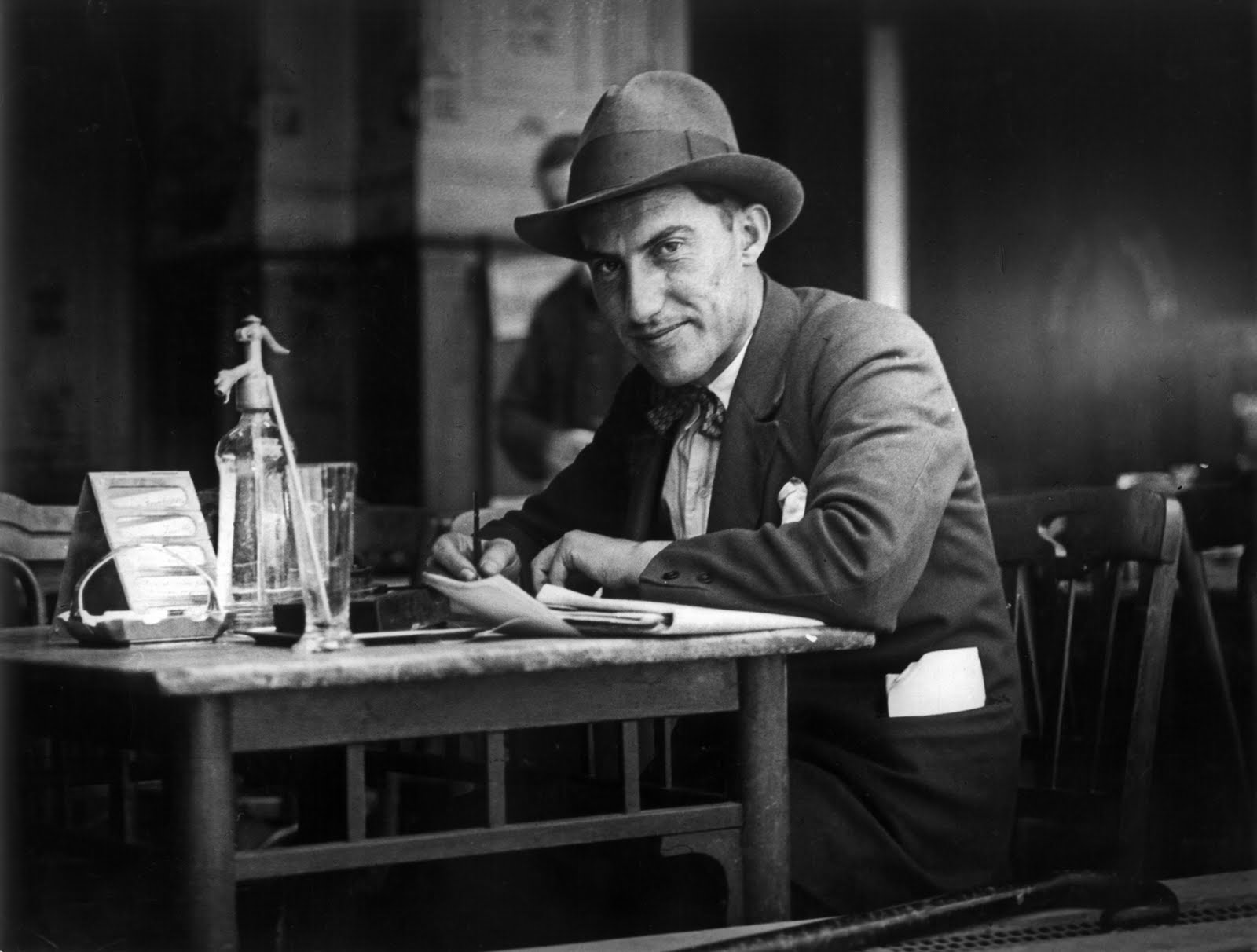 Photo of poet Rade Drainac.